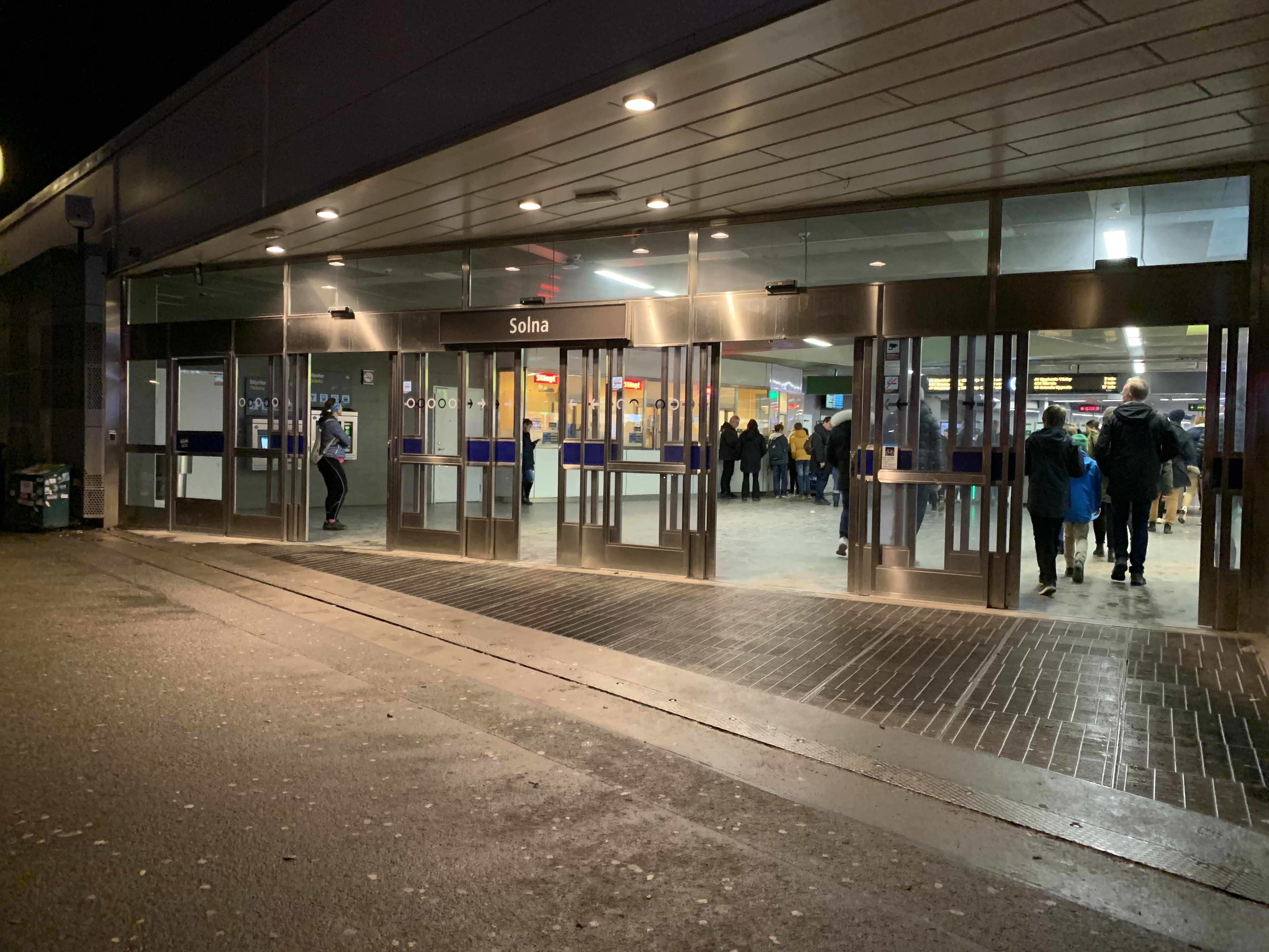 Solna station entrance